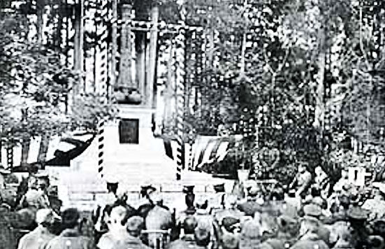 Ceremony_at_a_monument_to_Takashima_Shuhan_1922_photograph